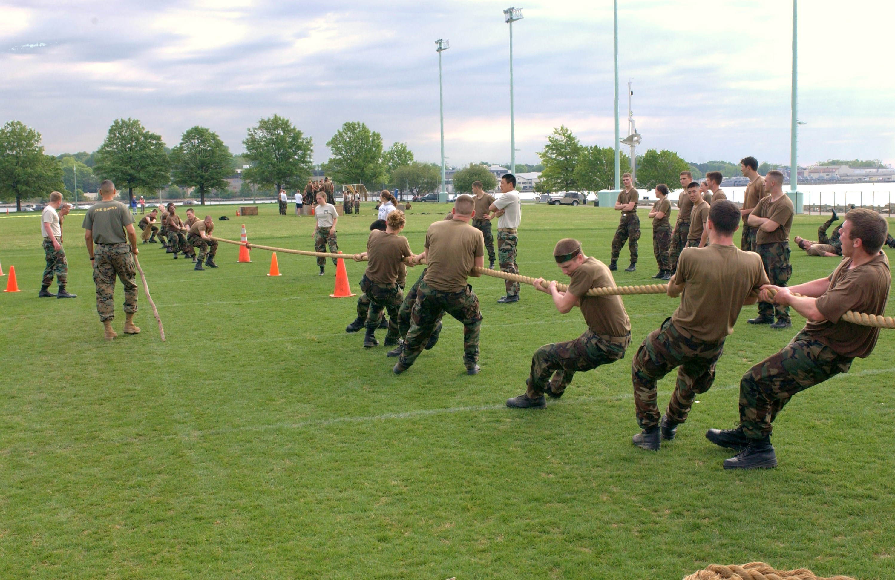 Tug of war; U.S. Naval Academy, Annapolis, Md. (May 17, 2005) - Freshmen, known as "Plebes," participate in an 11.5 hour rigorous physical and mental challenge at the United States Naval Academy known as "Sea Trials." This day-long, action-oriented event, modeled after the U.S. Marine Corps' 54-hour "Crucible" and the Navy's "Battle Stations" training tests, requires plebes to use skills they have learned during their first year at the Naval Academy. U.S. Navy photo by Photographer’s Mate 2nd Class Ryan Child